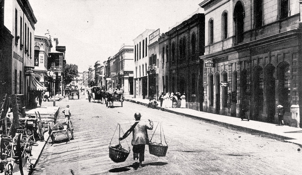 A view along Plein Street, Cape Town. 1870. Cape Colony.